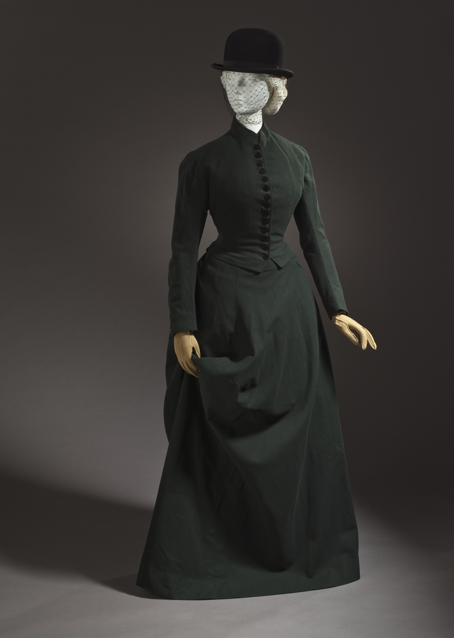 Scotland, circa 1878 Costumes wool Purchased with funds provided by Suzanne A. Saperstein and Michael and Ellen Michelson, with additional funding from the Costume Council, the Edgerton Foundation, Gail and Gerald Oppenheimer, Maureen H. Shapiro, Grace Tsao, and Lenore and Richard Wayne (M.2007.211.779.1a-b) Costume and Textiles